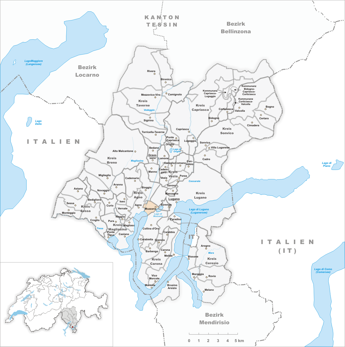 Municipality Muzzano